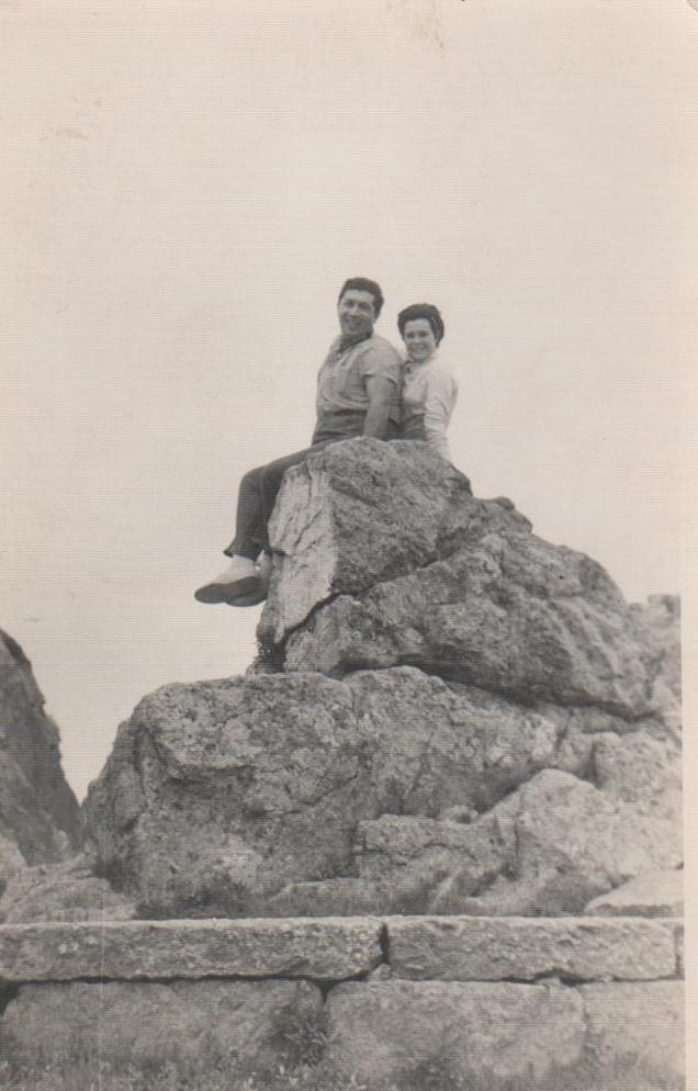 Recién casados de luna de miel